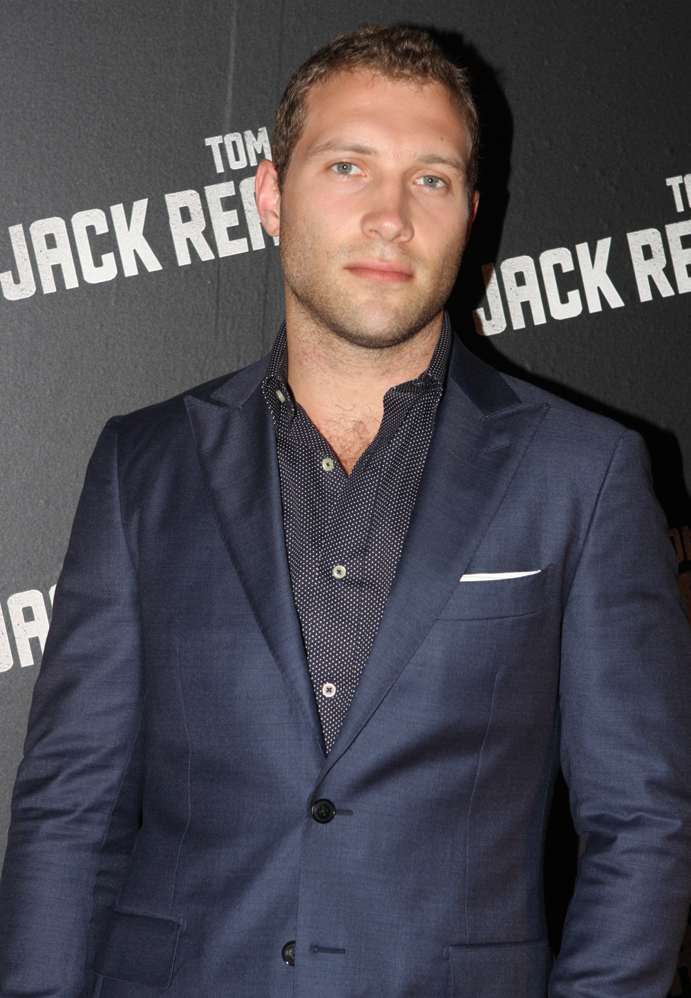 Jai Courtney at Jack Reacher movie premiere